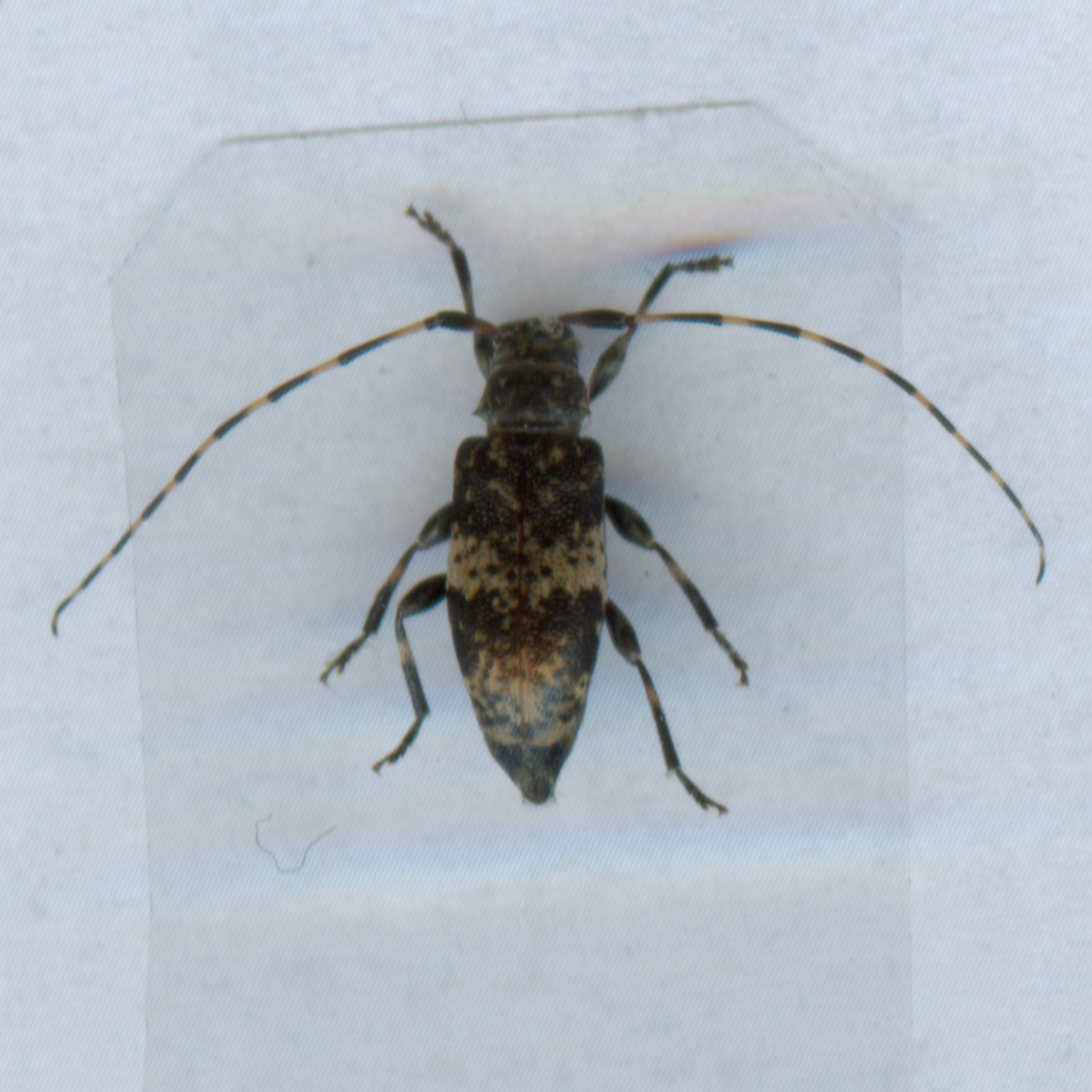 Leiopus nebulosus